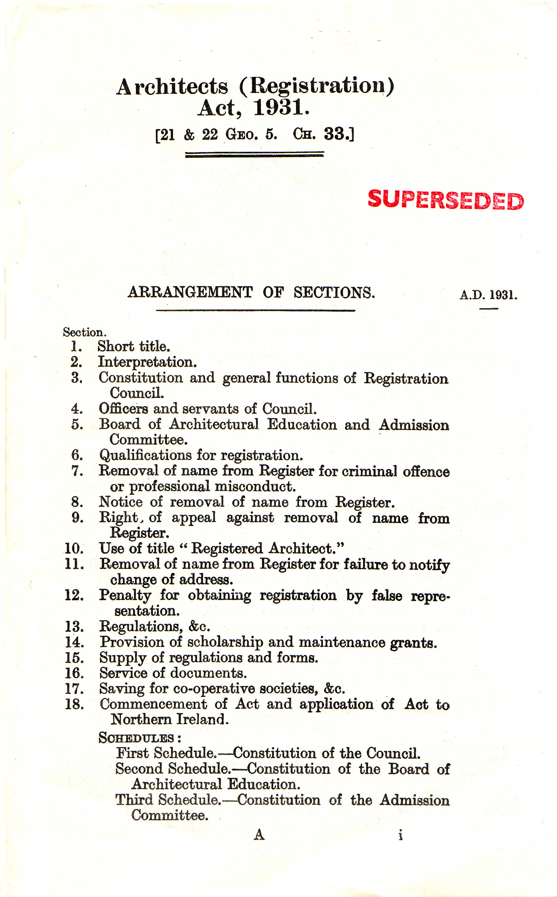 This is a copy of the front page of the Architects (Registration) Act, 1931.